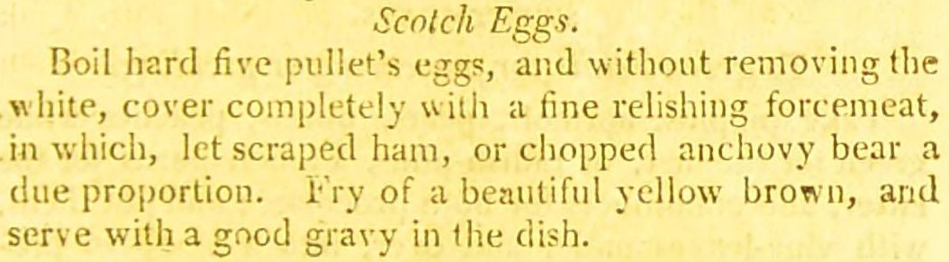 Maria Rundell's recipe for Scotch eggs